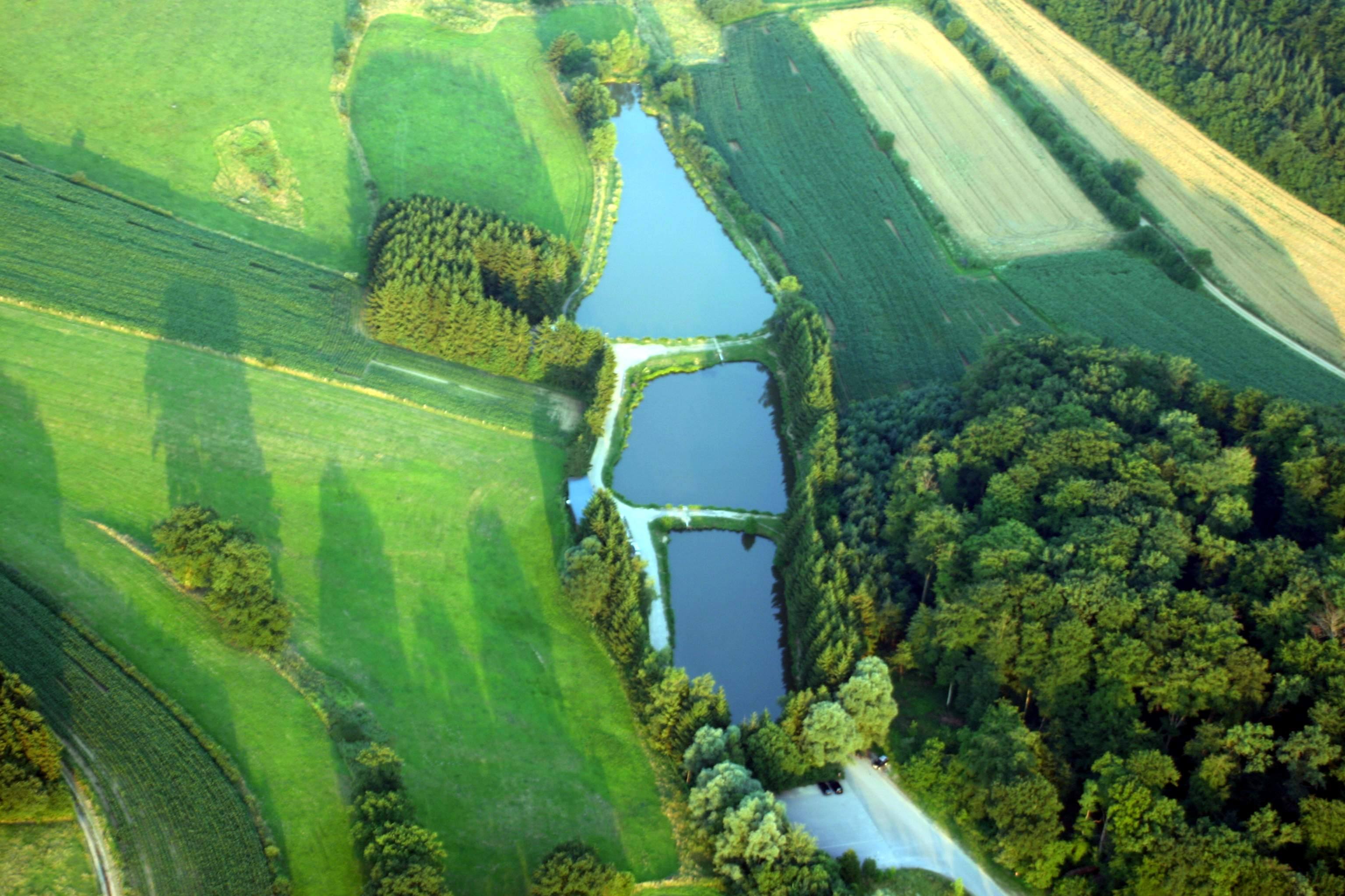 Fish ponds in Clemency, seen from the air, June 2006